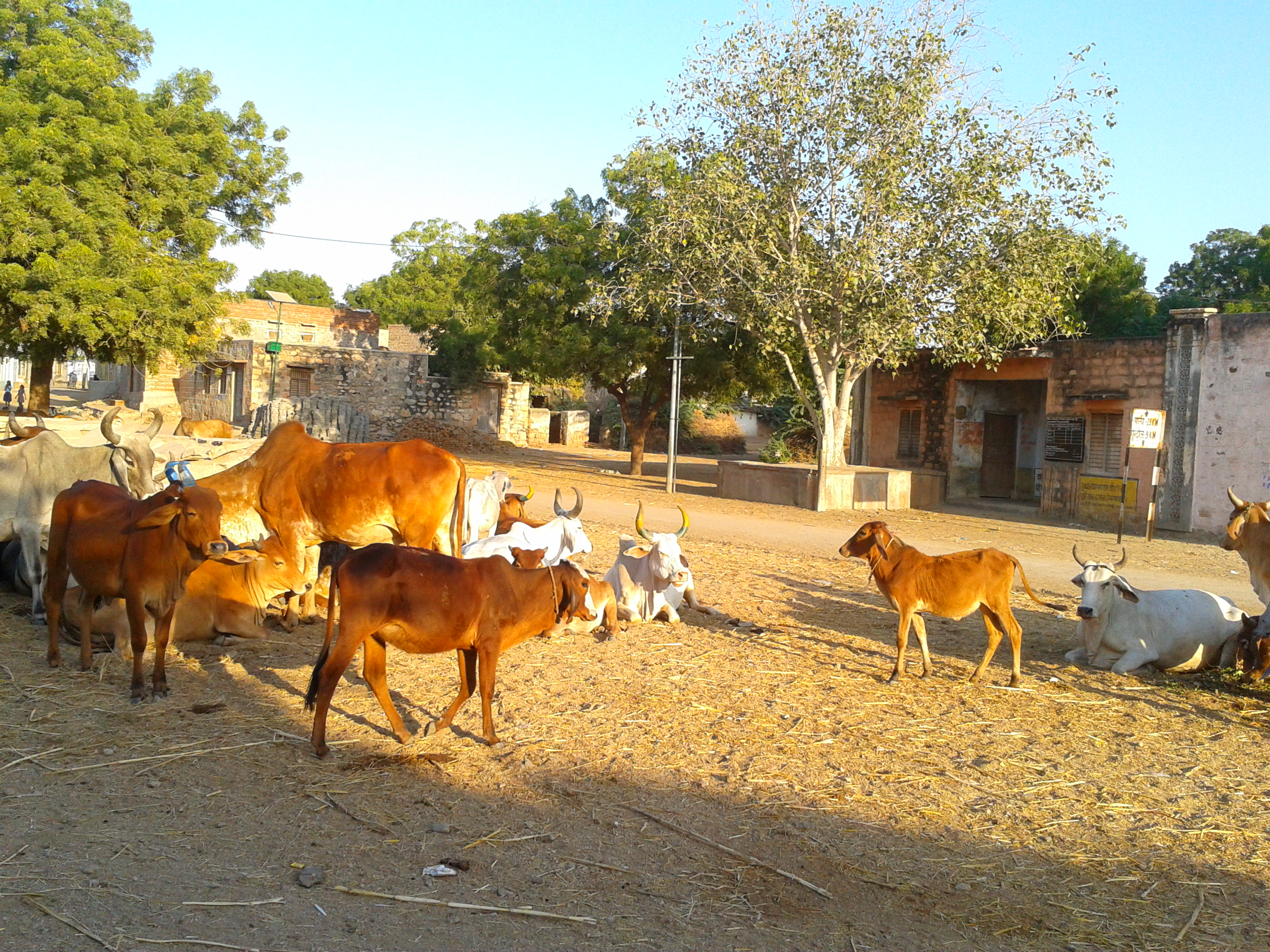 An image of Endla village